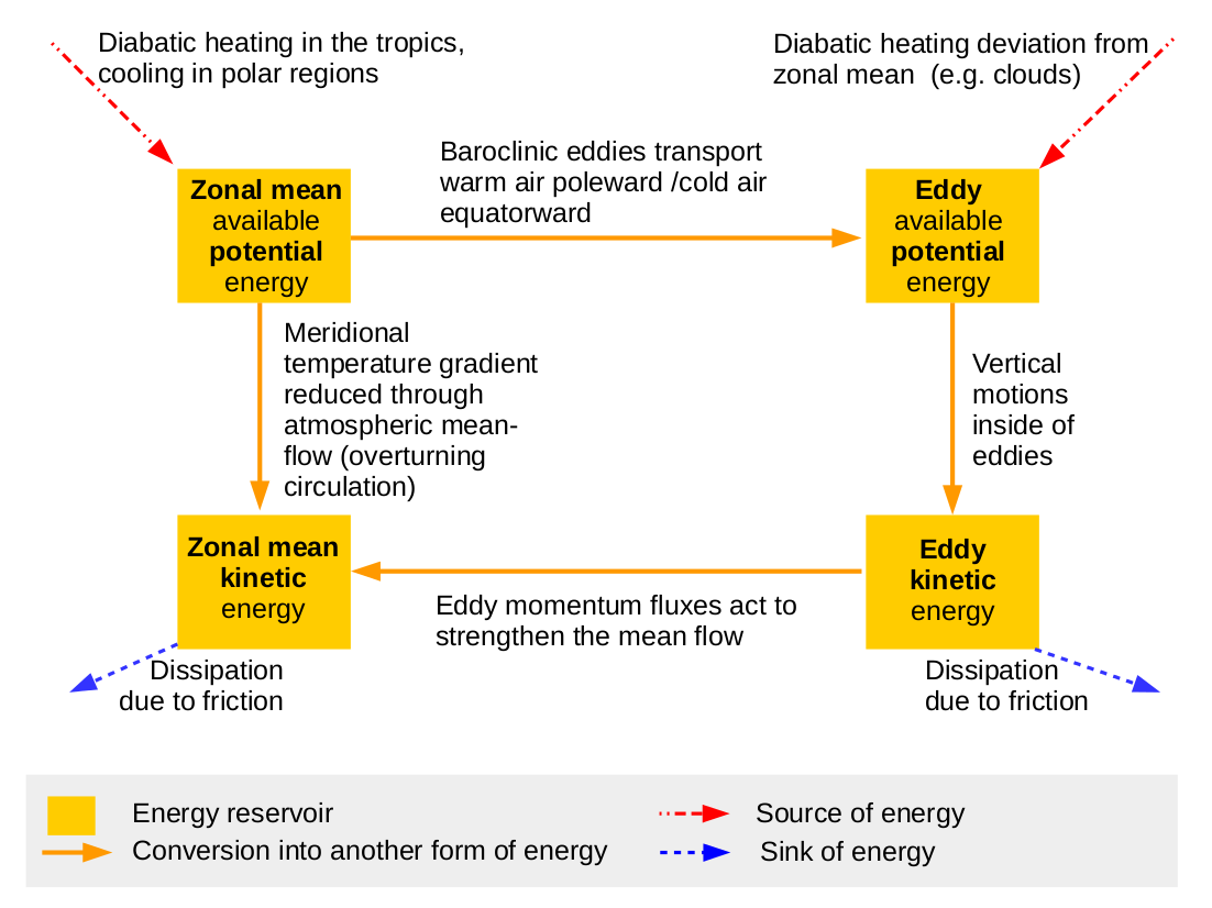 Schematic representation of the Lorenz Energy Cycle: Reservoirs, sources and sinks of energy in the atmospheric circulation. With notes/examples for each energy conversion process. More information e.g.: "An Introduction to Dynamic Meteorology" by James R. Holton (book), chapter 10 ("The General Circulation")